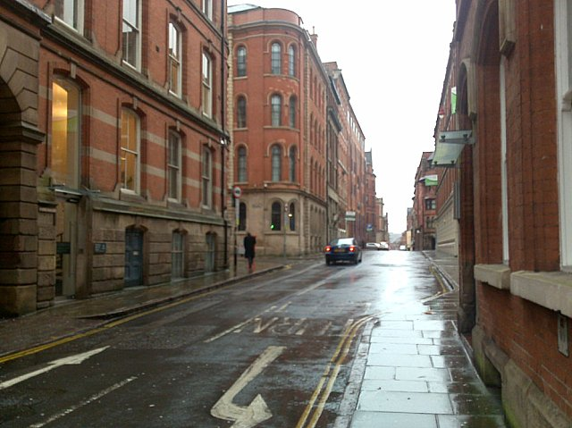 Stoney Street. The main thoroughfare of the Lace Market district of Nottingham. The road off to the left is Broadway 1639471.